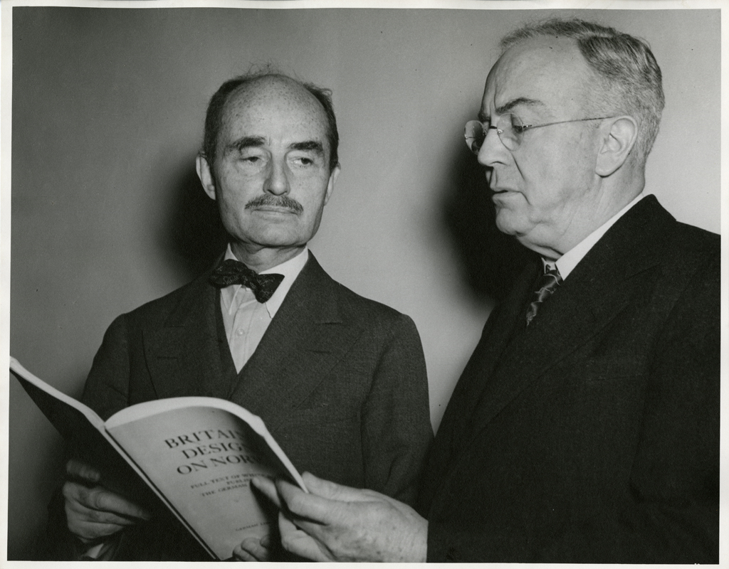 Nuremberg Trials judges Francis Biddle and John Johnston Parker examine a document. Gelatin silver process on paper. 28 x 35.3 cm. Image courtesy of the Harvard Law School Library, Harvard University, Cambridge, Mass.